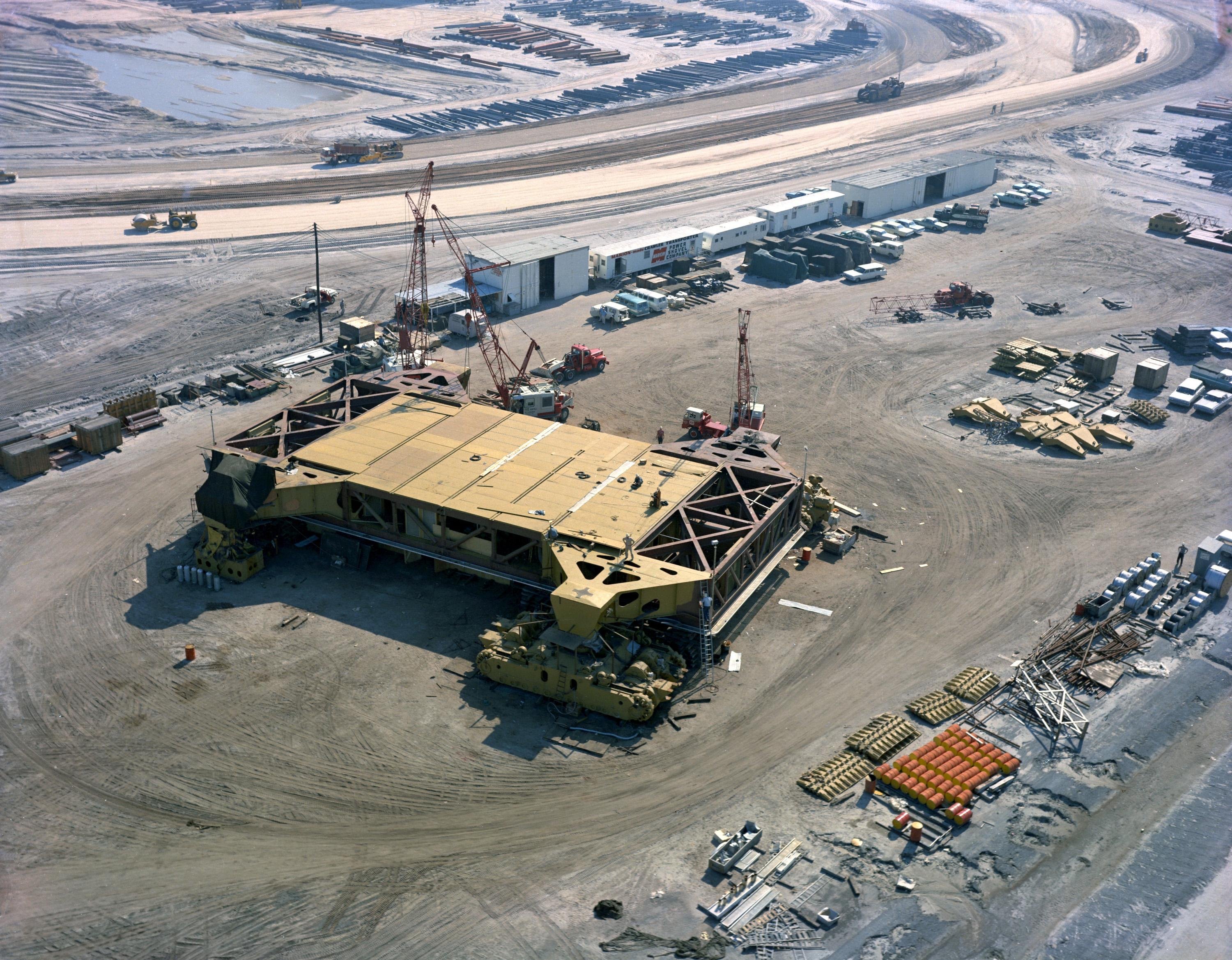 Aerial view of crawler-transporter 1 (CT 1) under construction, November 1964, surrounded by components that will eventually be installed. Note a number of the shoes at bottom right that will form the eight tracks of the crawler. In the background is a staging area for material being used in the construction of the Vehicle Assembly Building.